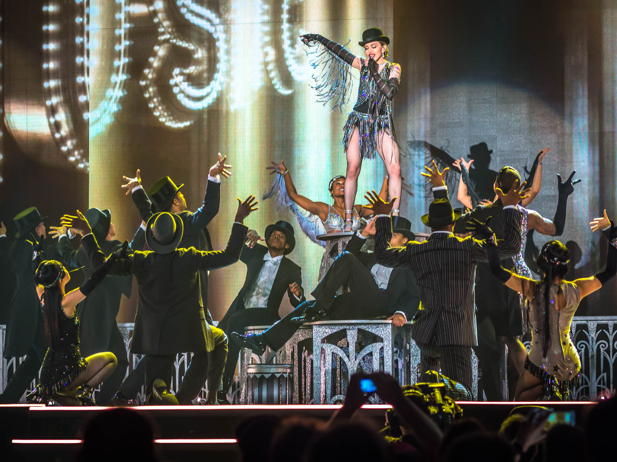 Rebel Heart Tour